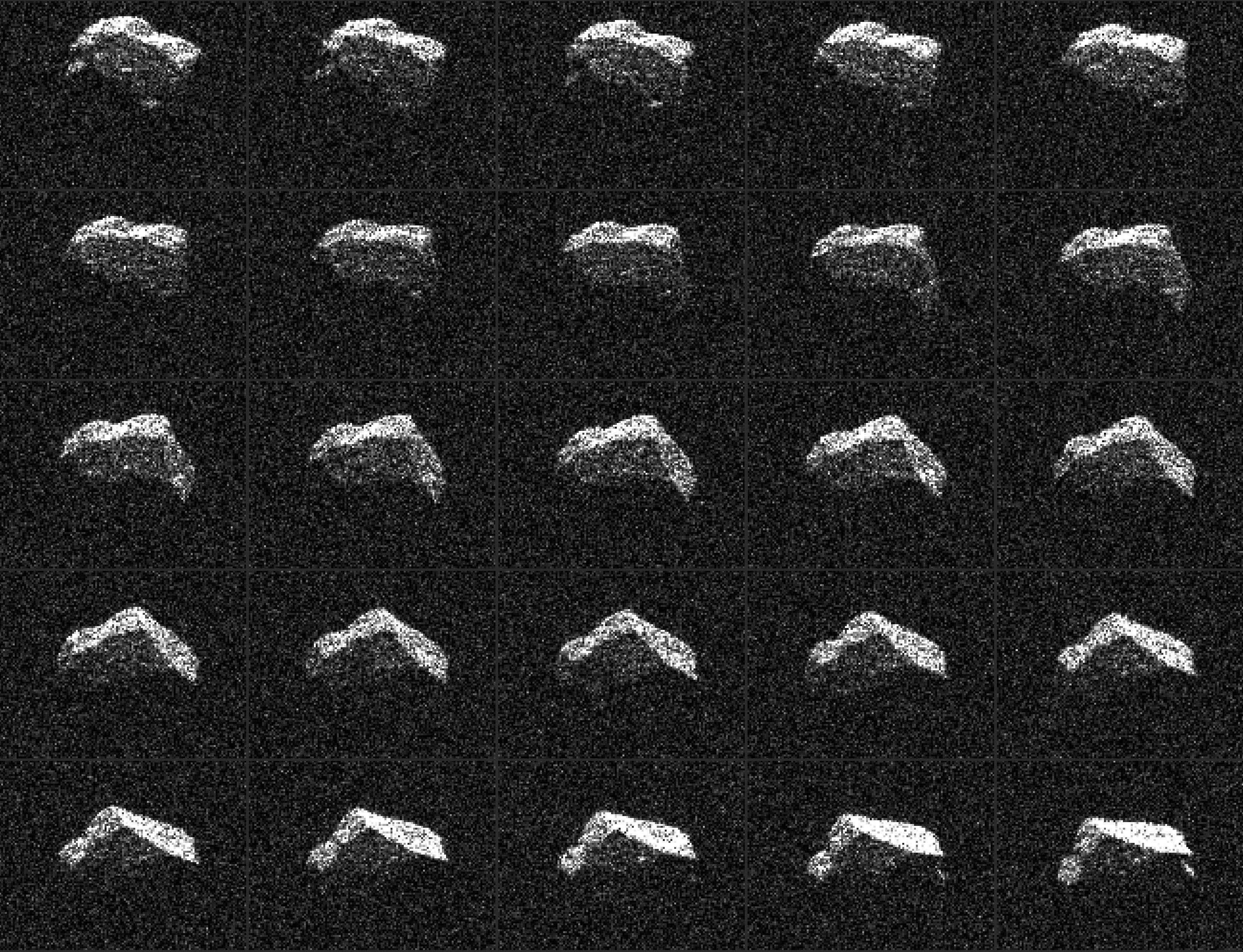 This composite of 25 images of asteroid 2017 BQ6 was generated with radar data collected using NASA's Goldstone Solar System Radar in California's Mojave Desert. The images were gathered on Feb. 7, 2017, between 8:39 and 9:50 p.m. PST (11:39 p.m. EST and 12:50 a.m., Feb. 7), revealing an irregular, angular-appearing asteroid about 660 feet (200 meters) in size that rotates about once every three hours. The images have resolutions as fine as 12 feet (3.75 meters) per pixel. NASA's Jet Propulsion Laboratory, Pasadena, California, manages and operates NASA's Deep Space Network, including the Goldstone Solar System Radar, and hosts the Center for Near-Earth Object Studies for NASA's Near-Earth Object Observations Program within the agency's Science Mission Directorate. JPL hosts the Center for Near-Earth Object Studies for NASA's Near-Earth Object Observations Program within the agency's Science Mission Directorate. More information about asteroids and near-Earth objects can be found at and